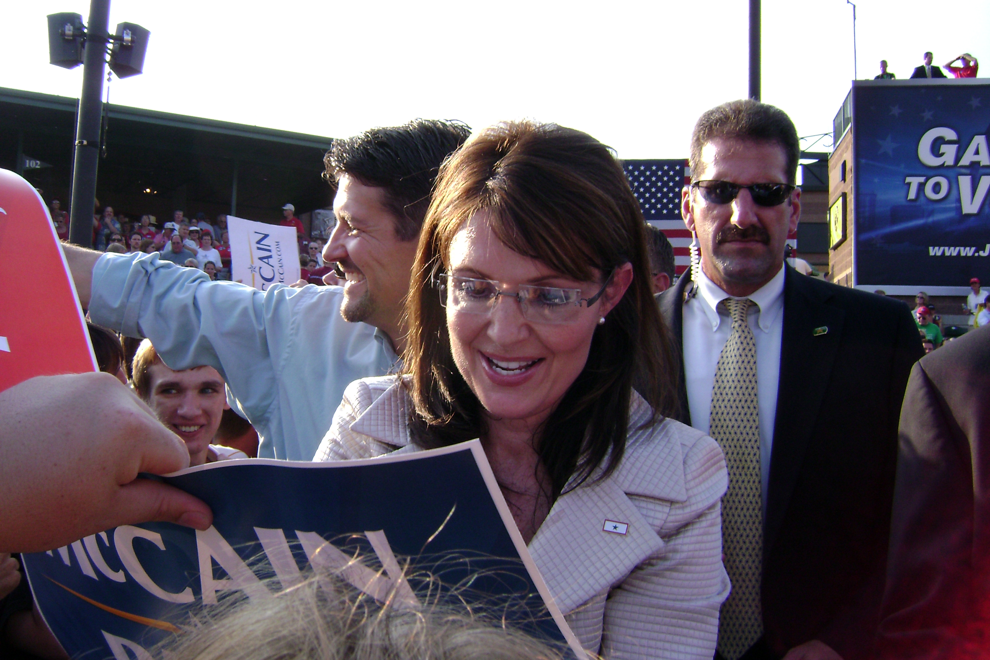 Sarah Palin signing an autograph at a McCain/Palin campaign rally in O'Fallon, Missouri during the en:2008 Presidential Election